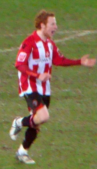 Stephen Quinn in his Blades kit after scoring an equaliser against Cardiff City FC.